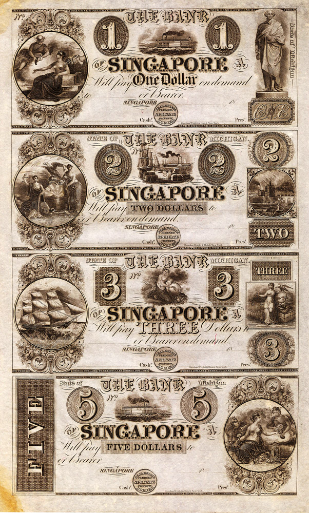 Dollar note from Singapore, Michigan